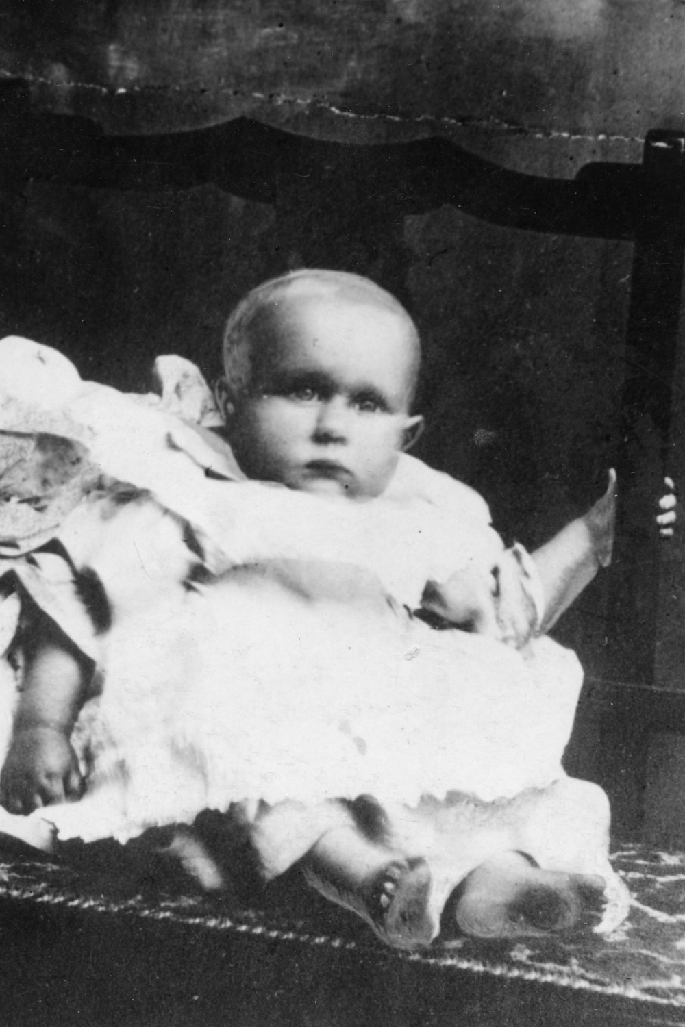 Photograph of Sidney Leslie Goodwin.